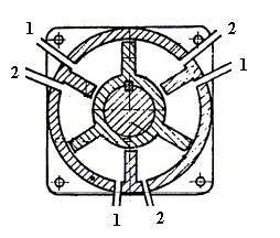 Design of rudder assy